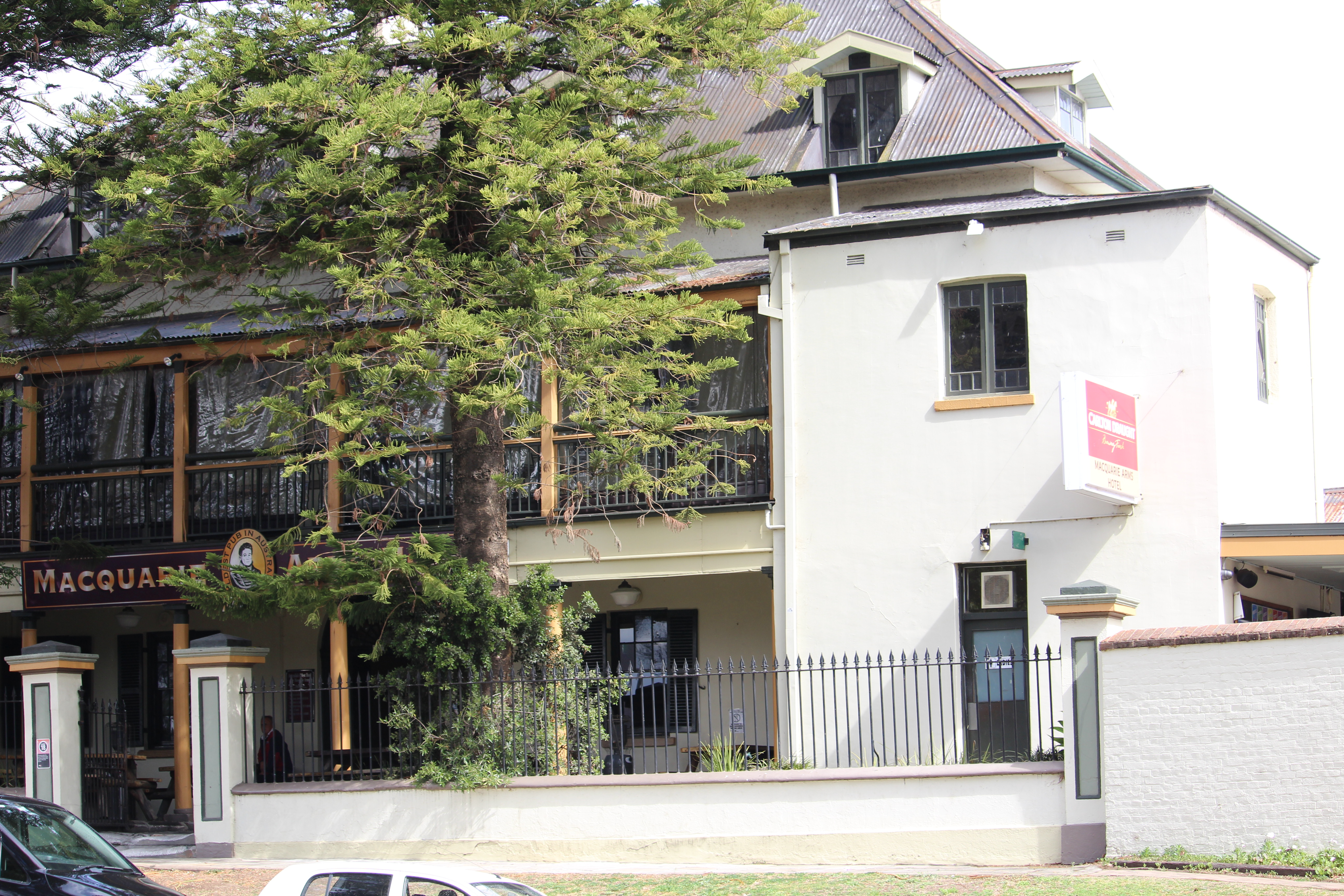 Viewed from the upper parkland of Thompson Square, September 2018.